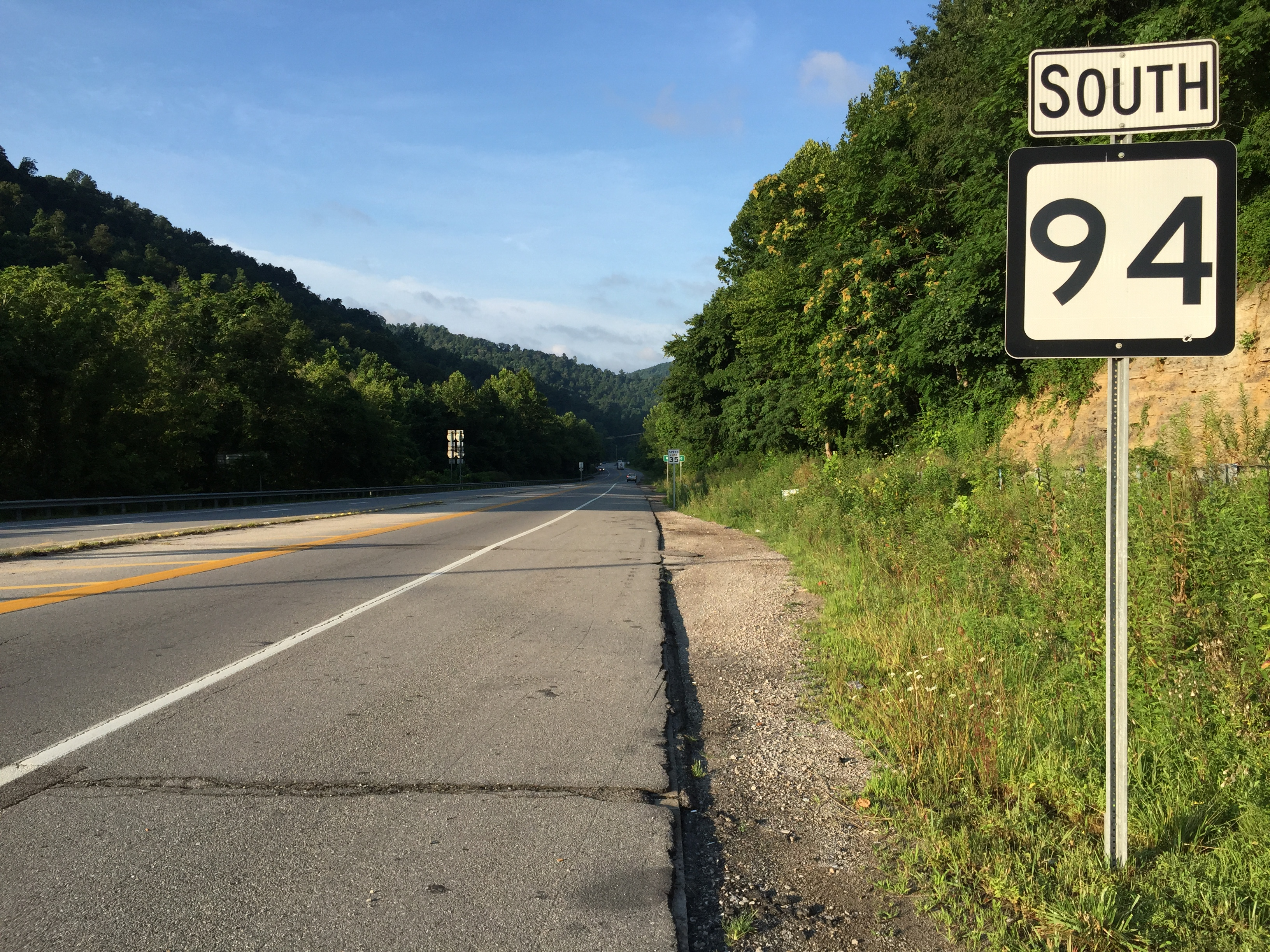 View south along West Virginia State Route 94 (Lens Creek Road) at Interstate 64 and Interstate 77 (West Virginia Turnpike) in Marmet, Kanawha County, West Virginia